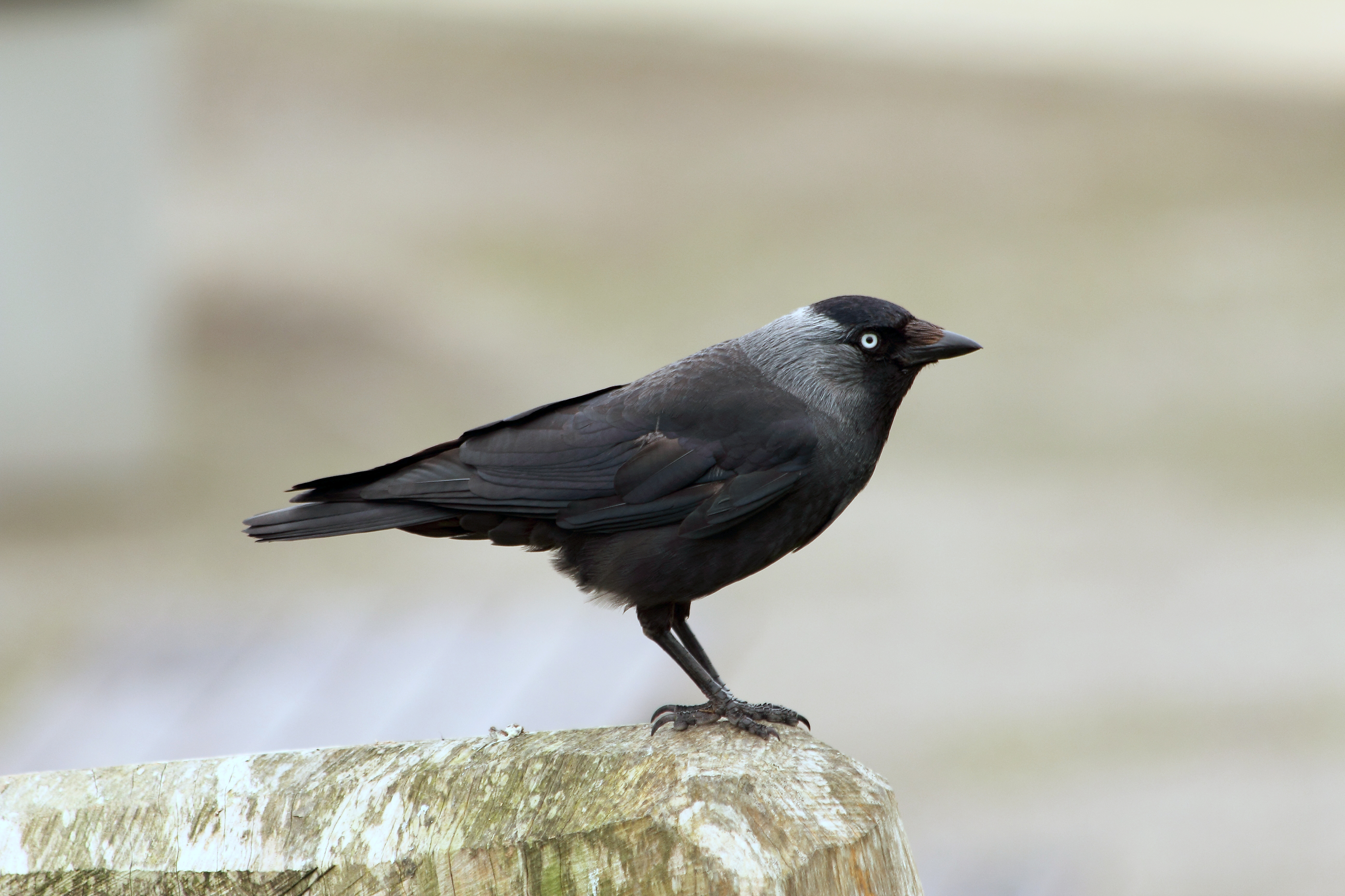 Jackdaw (Corvus monedula) in Newquay, United Kingdom.